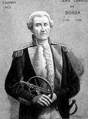 Uploaded to en.wikipedia by user:Fahrenheit451